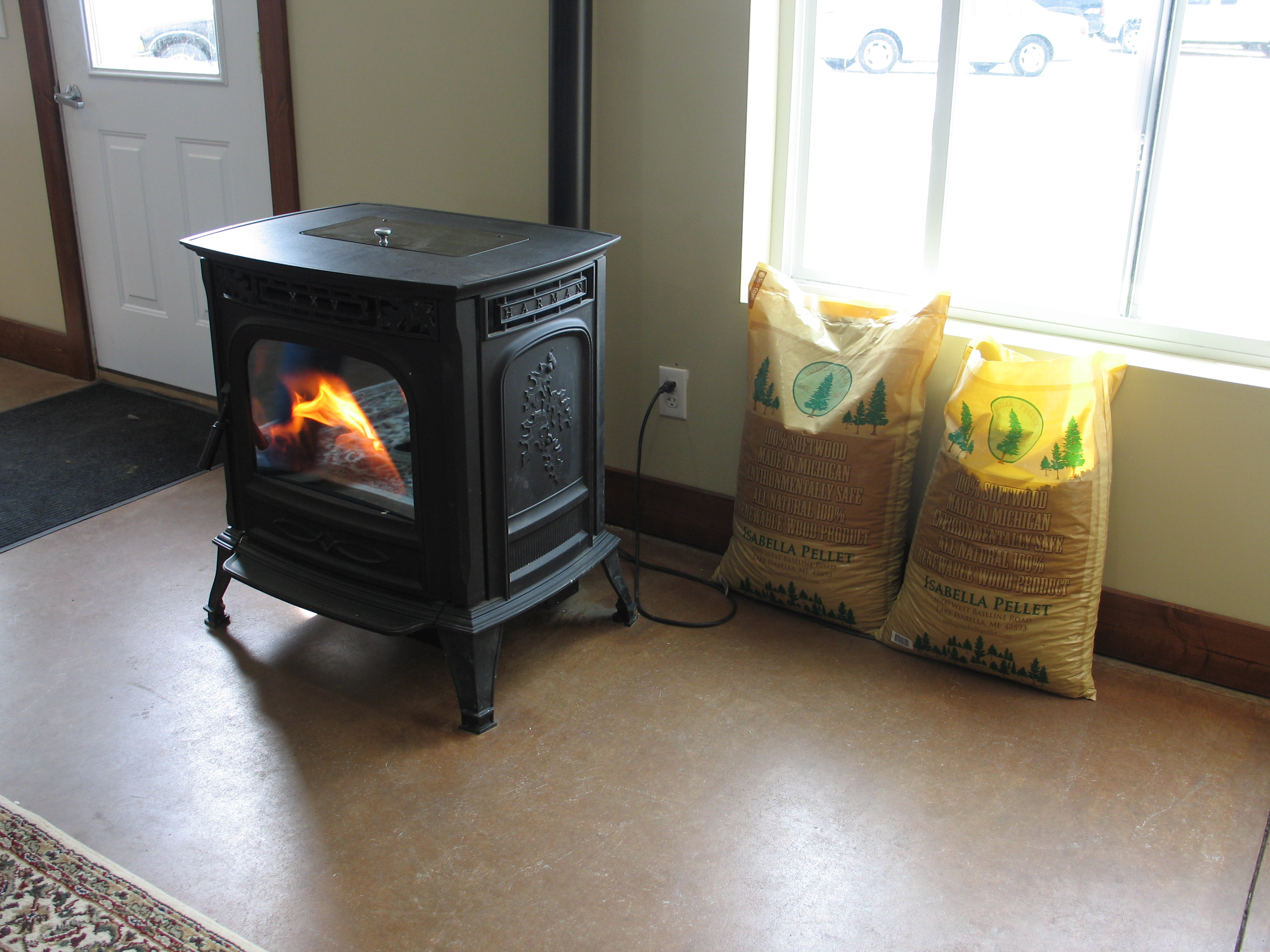 Isabella Pellets at work: A wood stove burns brightly with plenty of pellets